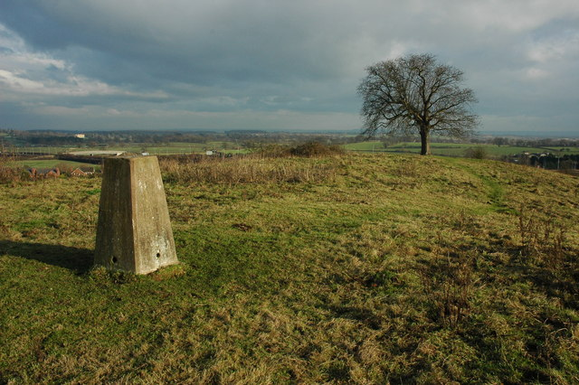 On top of Whittington Tump or Crookbarrow Hill View to the north-east from the trig point on top of Whittington Tump or Crookbarrow Hill. A bridge over the M5 motorway can be seen above the trig point, with the sun lighting Spetchley Hall in the distance. With its tree on the summit this 86m high hill is a prominent feature for travellers passing junction 7 on the M5 motorway. There is still debate as to whether this is a natural or man-made hill. There is a myth that it is a burial site from the Battle of Worcester (1651), however, some archaeologists believe it may be a very large ancient burial barrow. No archaeology dig has ever taken place on the site.